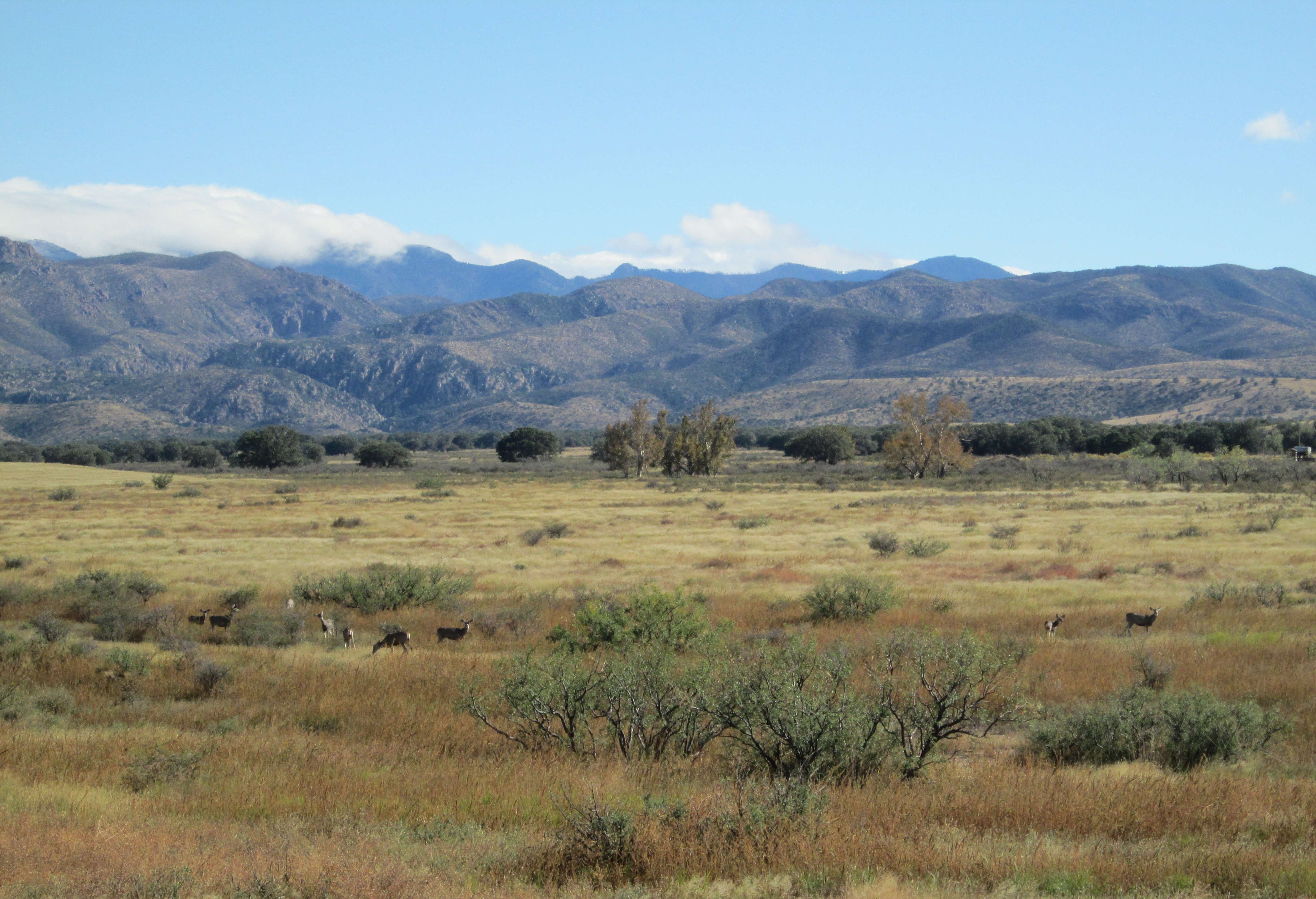 Mule Deer in the Sulphur Springs Valley, along Bonita Canyon Road. The Chiricahua Mountains are in the background.